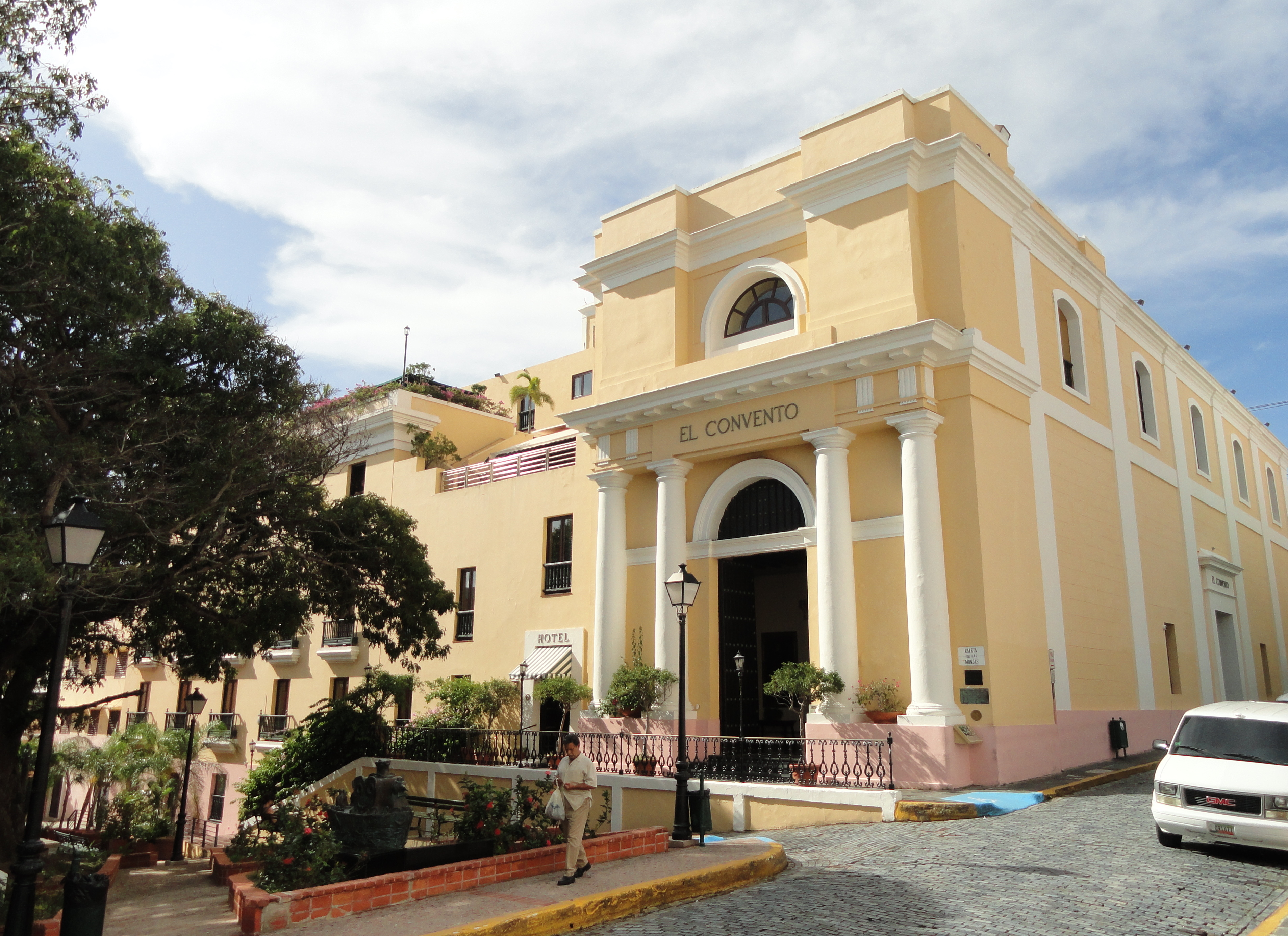 Building in Old San Juan, Puerto Rico.